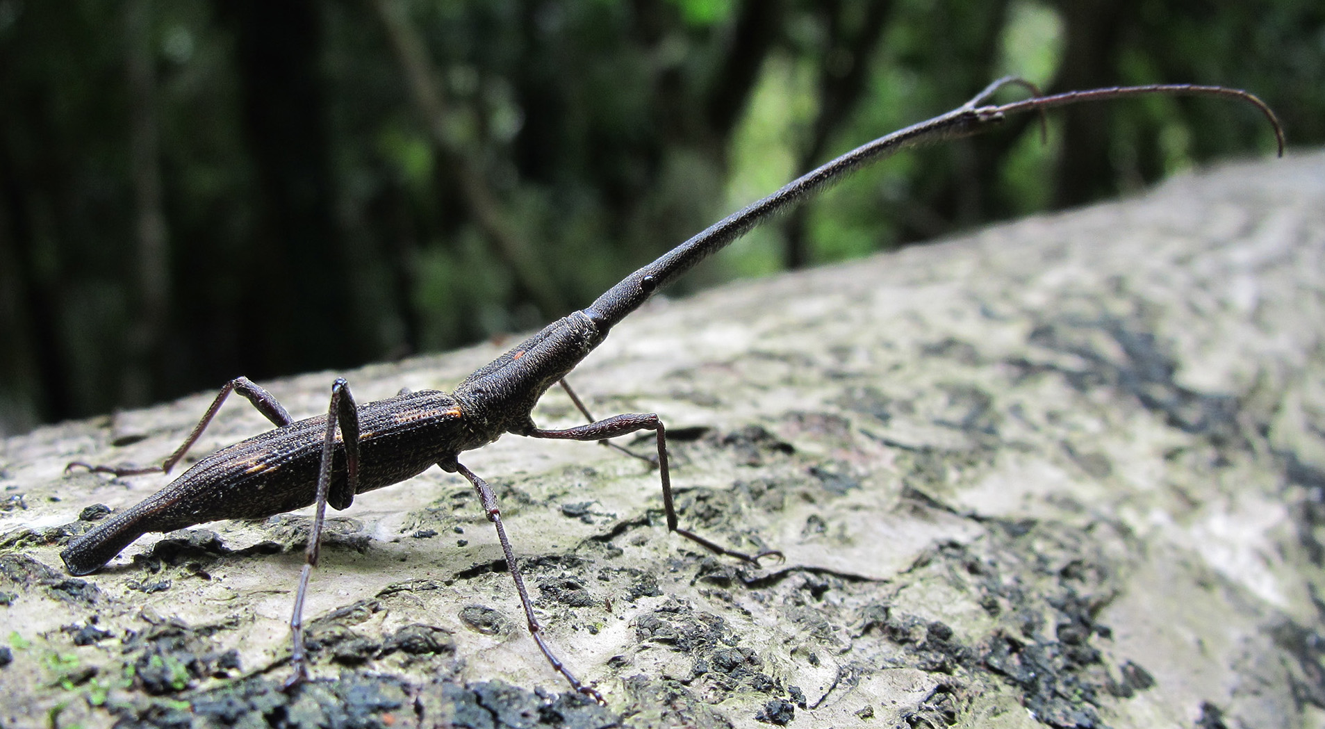 A male New Zealand giraffe weevil (Lasiorhynchus barbicornis) taken at Matuku Reserve